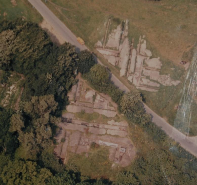 Ruins of Tvis Monastery, Denmark